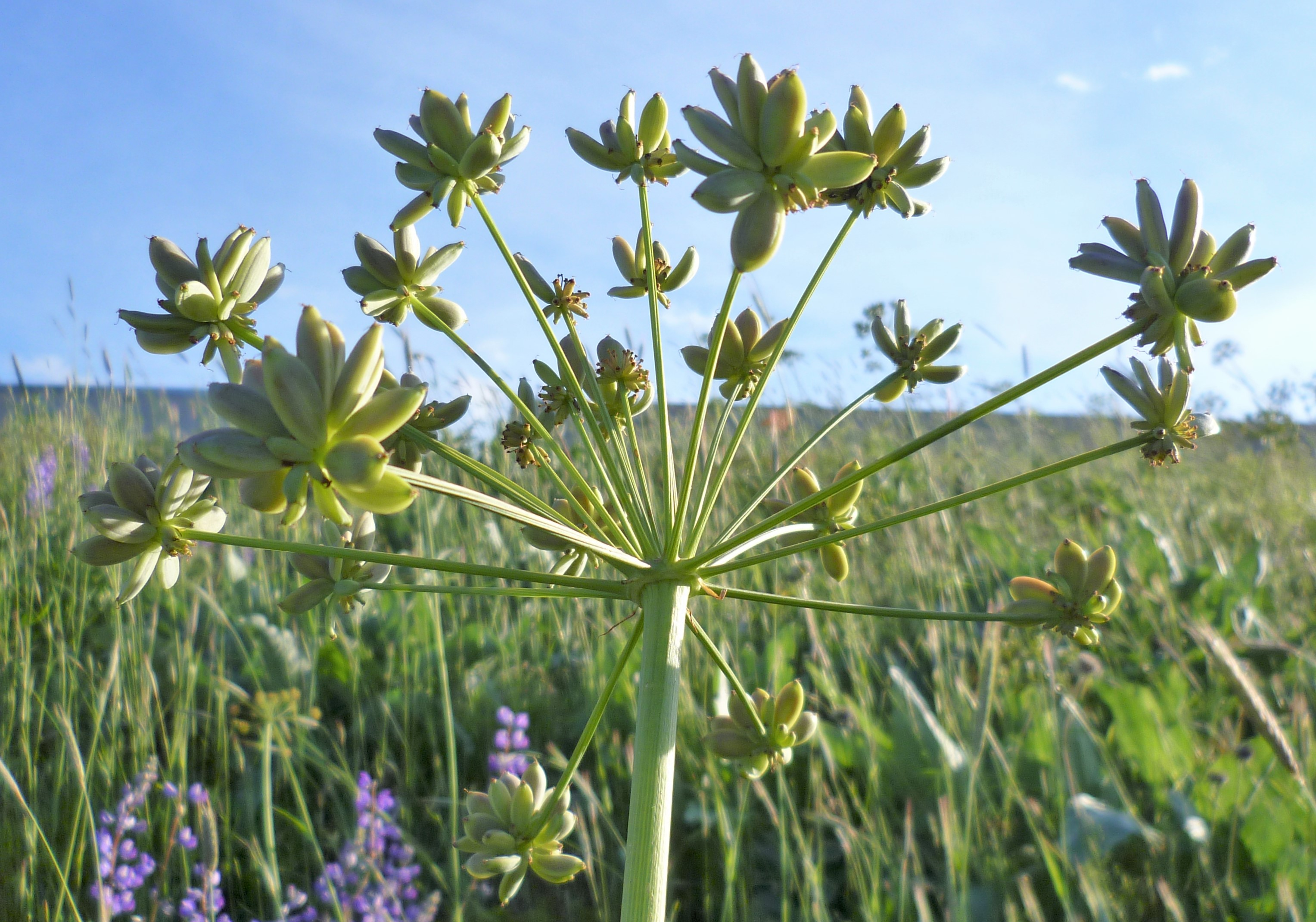 Lomatium dissectum var. dissectum green fruit in Dryden, Chelan County Washington